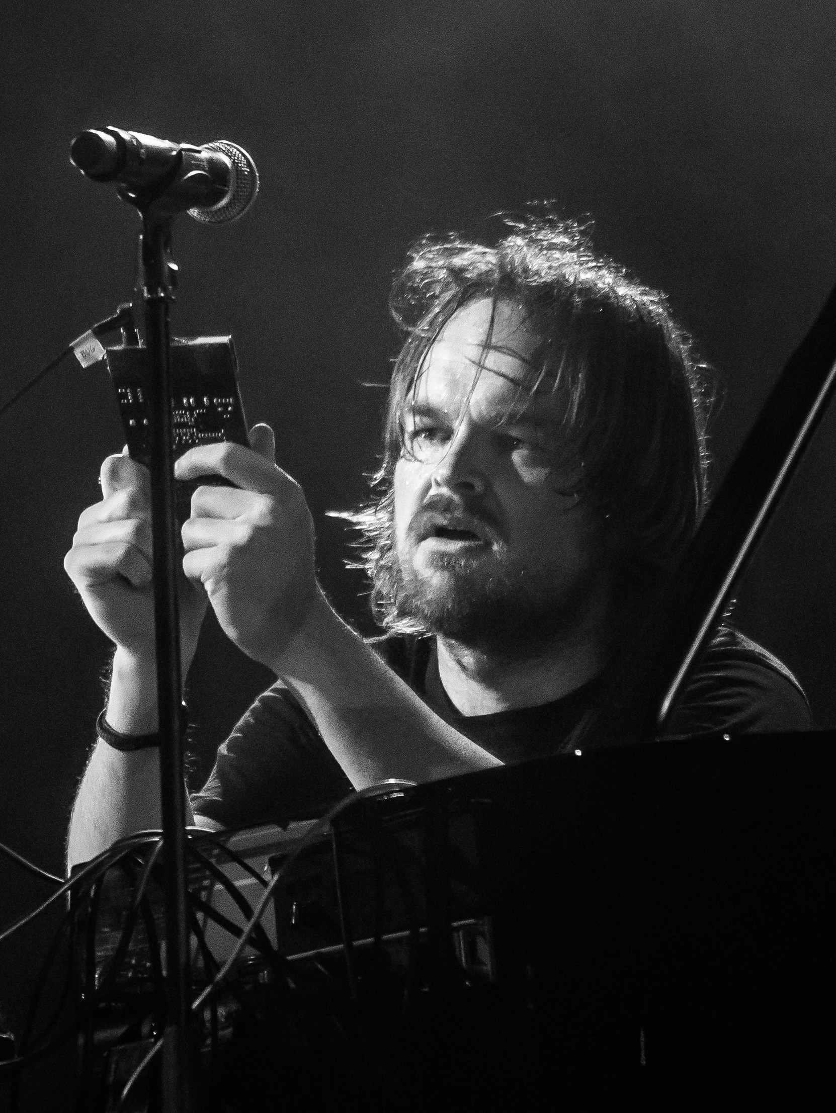 Norwegian jazz pianist Morten Qvenild at the Moers Festival 2015